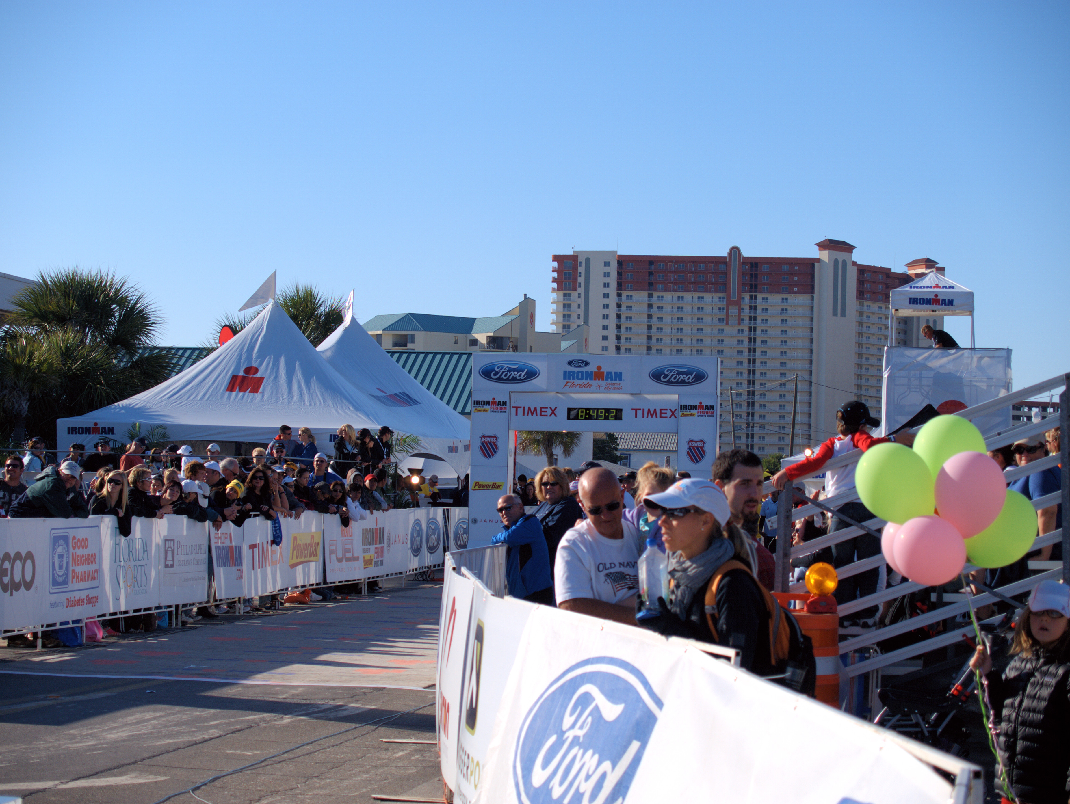 Finish chute at Ironman Florida 2010